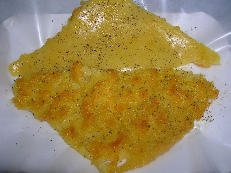 Torta di ceci in Livorno, Italy.